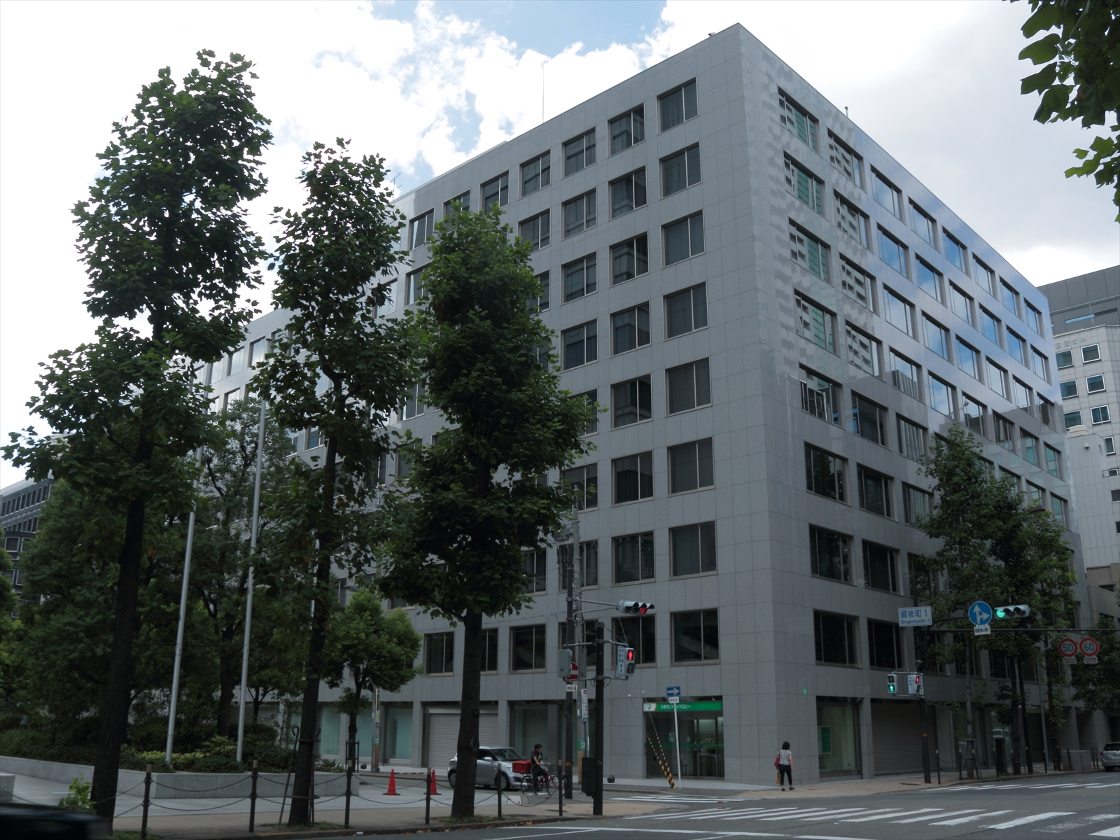 Nomura Building No.2 (Built in 1973).